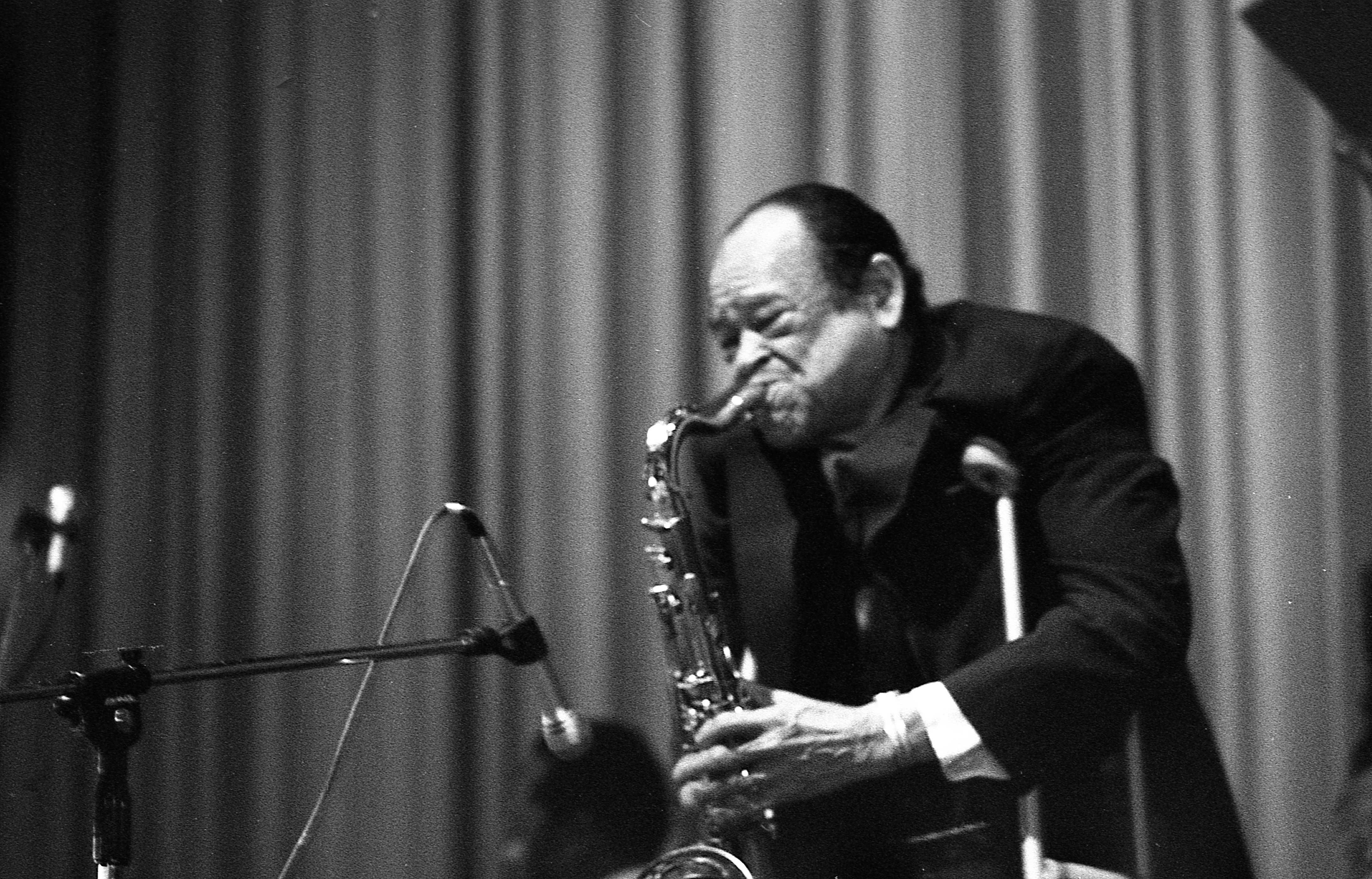 Arnett Cobb in Concert at Filmforum, Duisburg, Germany, ca. 1987